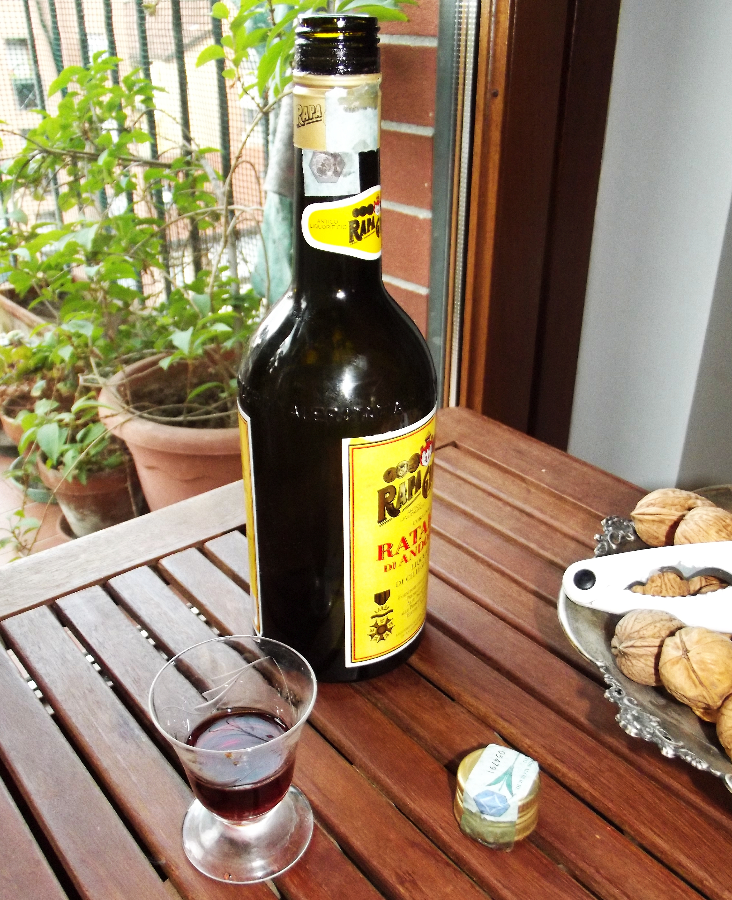 Ratafià di Andorno (a traditional liquor from the Province of Biella, Italy)